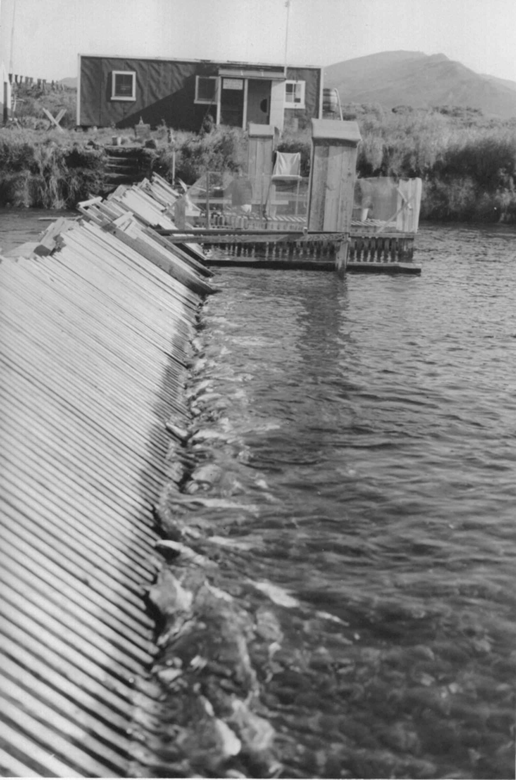 Image title: Karluk river Alaska spawned out pink salmon dead at Karluk river counting weir Image from Public domain images website